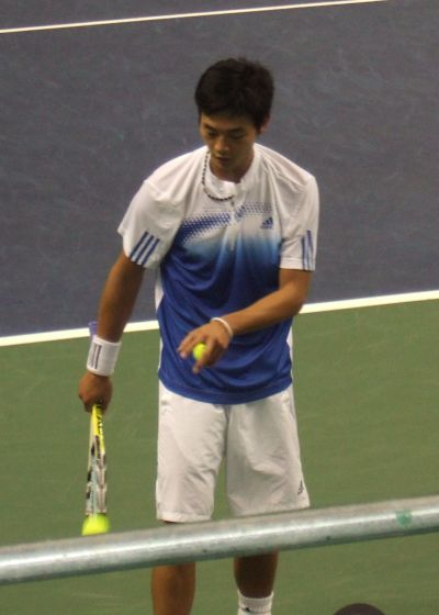 Lu Yen-hsun, playing in San Jose 2008